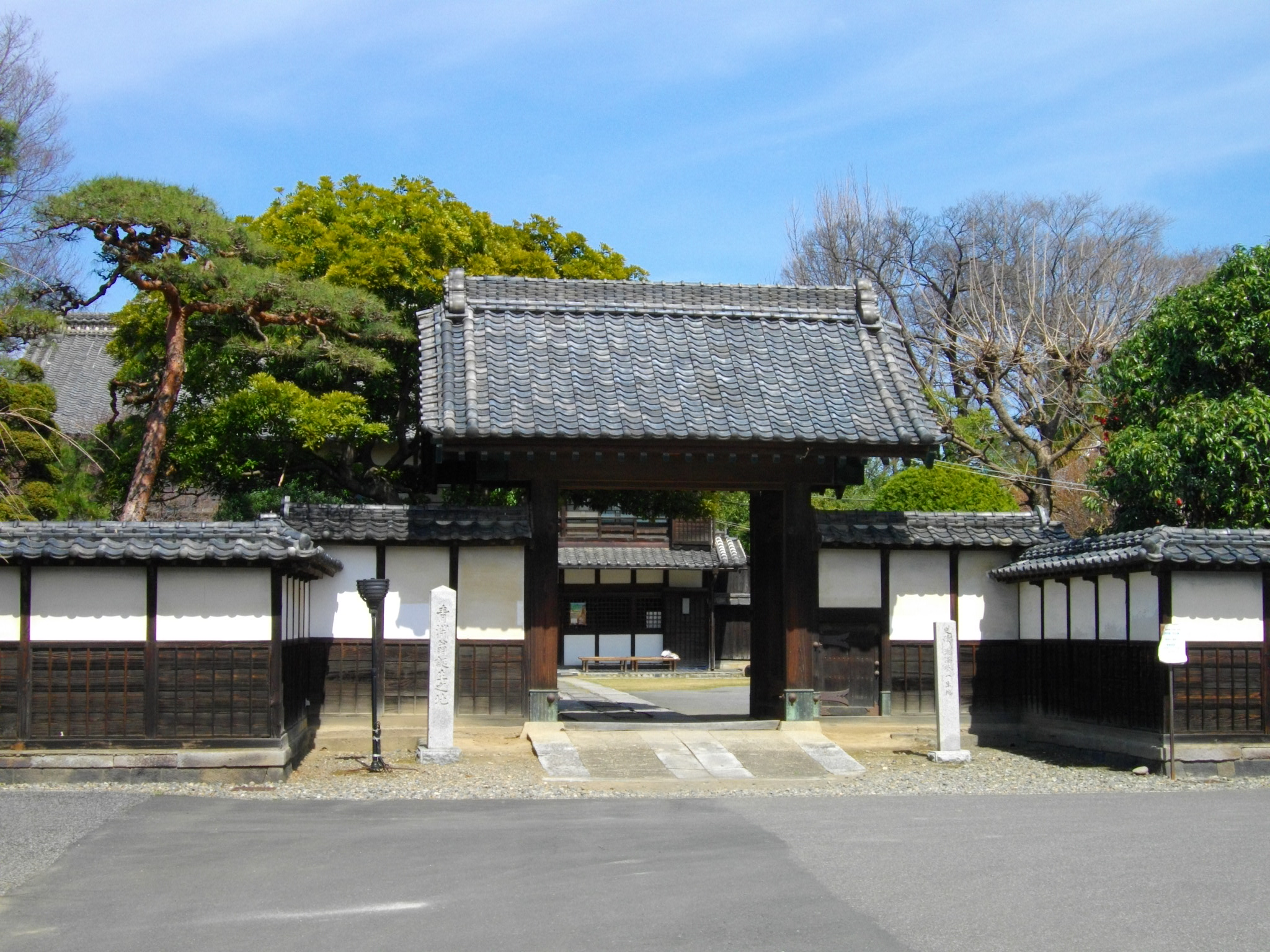 Birthplace of Eiichi Shibusawa